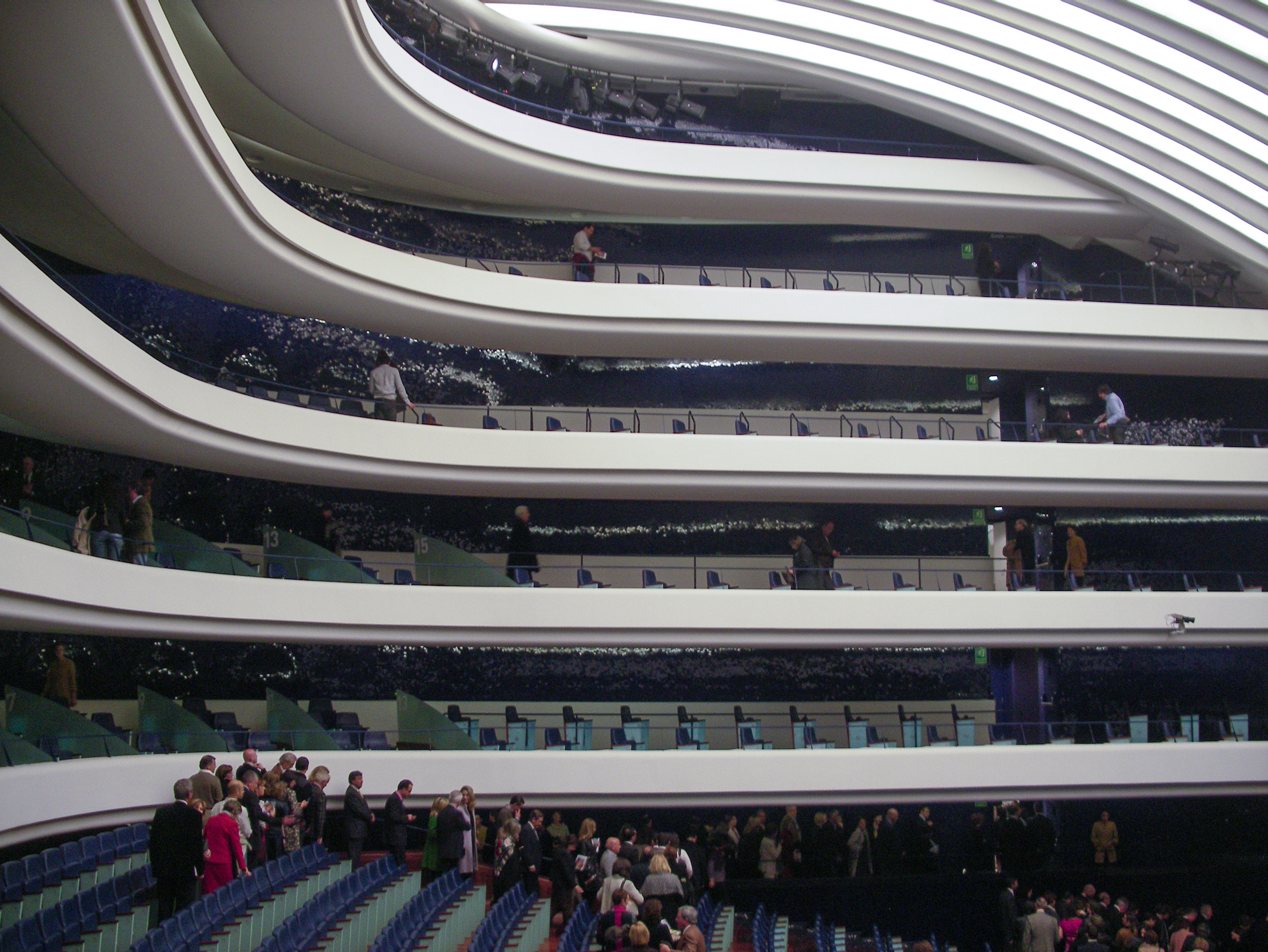 Main auditorium at the Palau de les Arts, Valencia opera house, projected by Santiago Calatrava